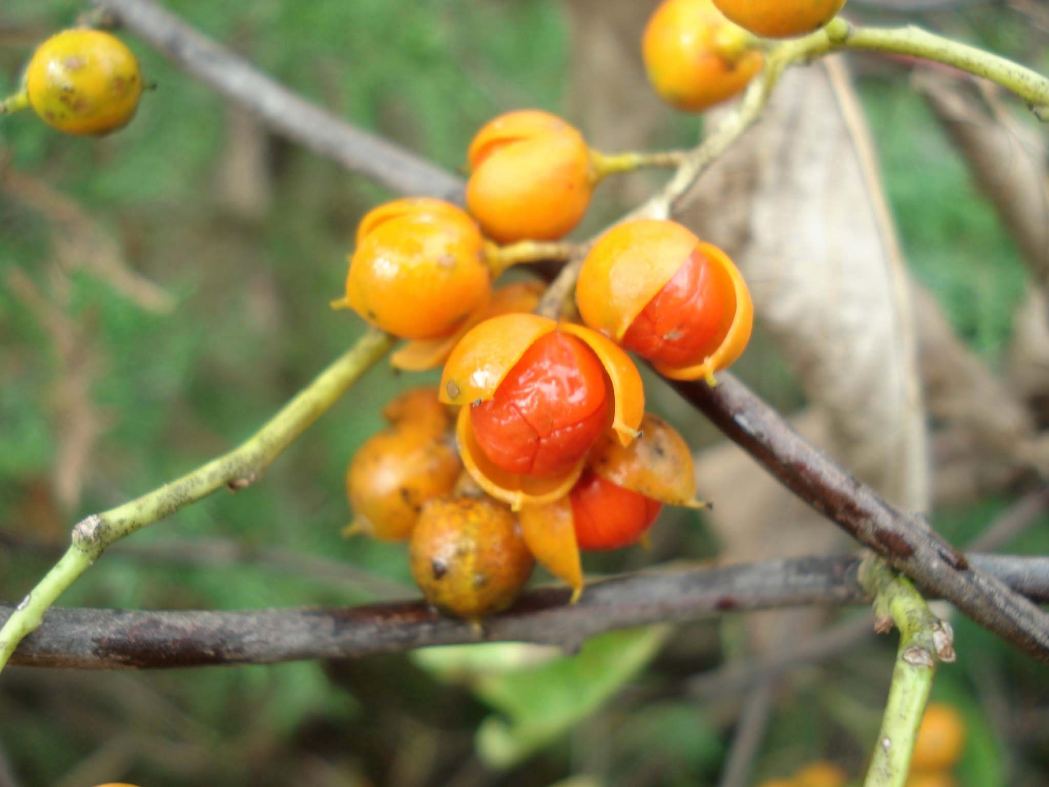 Celastrus scandens L. - O'Hearn, M.